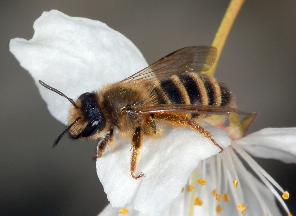 Andrena flavipes [det. S. Tischendorf], Selzerbrunnen, Nied, Frankfurt/Main, Germany